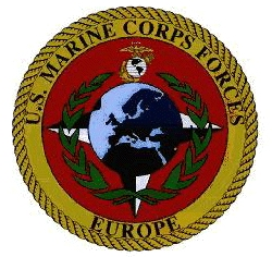 Logo for United States Marine Forces, Europe.